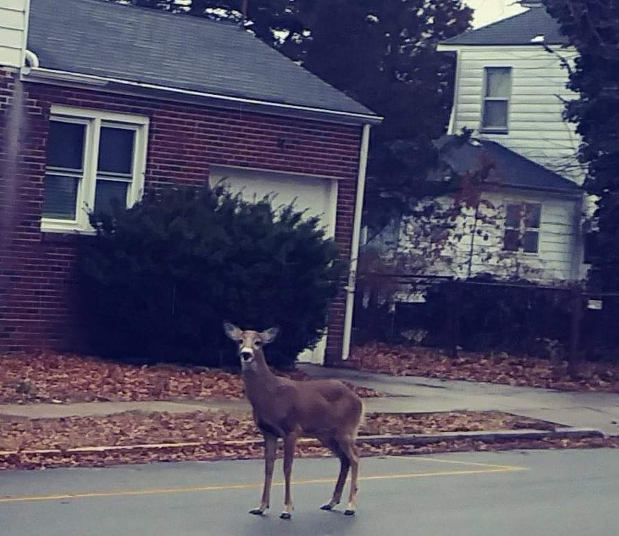 A deer in the street in Highland Park, Middlesex County, NJ at 11:27 AM on Feb 24, 2018